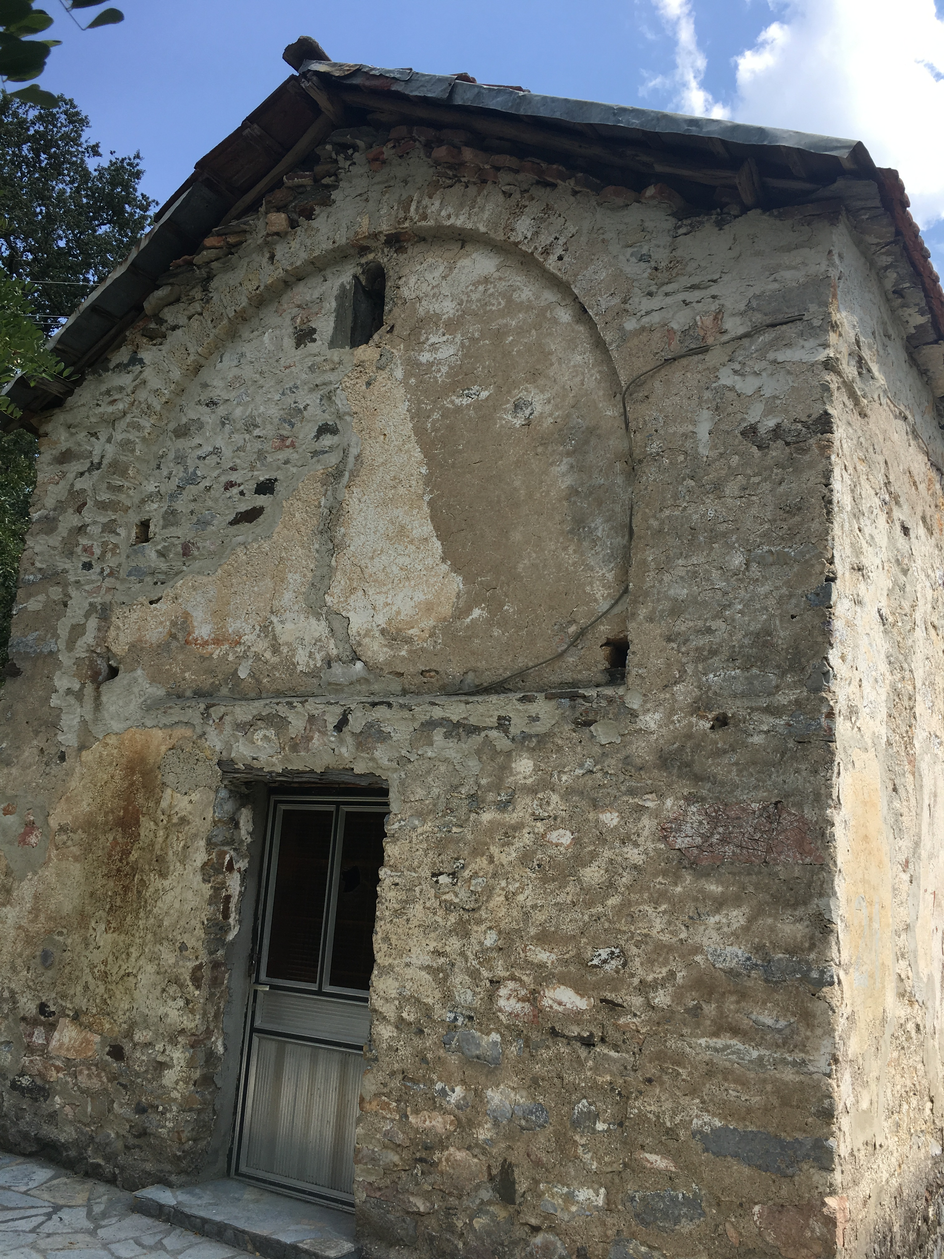 St. George Church in the village of Rečica